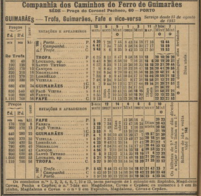 Timetables of the trains in the Linha de Guimarães (Guimarães Railway), in Portugal, on the 13th August 1913. This image was published on the Guia Official dos Caminhos de Ferro de Portugal No. 168, of October 1913, and scanned by the Biblioteca Nacional de Portugal.